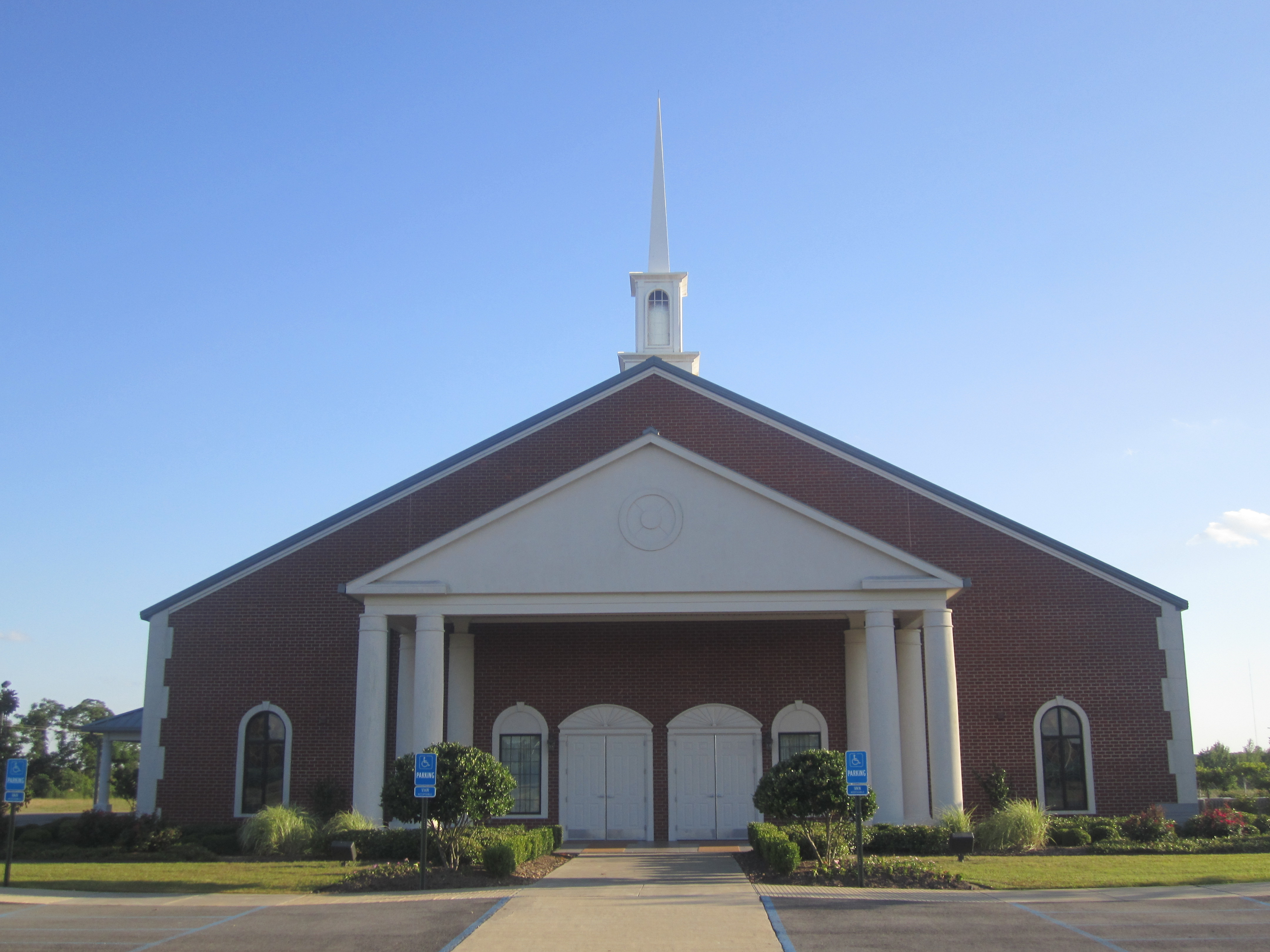 I took photo with Canon camera in Sterlington, LA: First Baptist Church there.